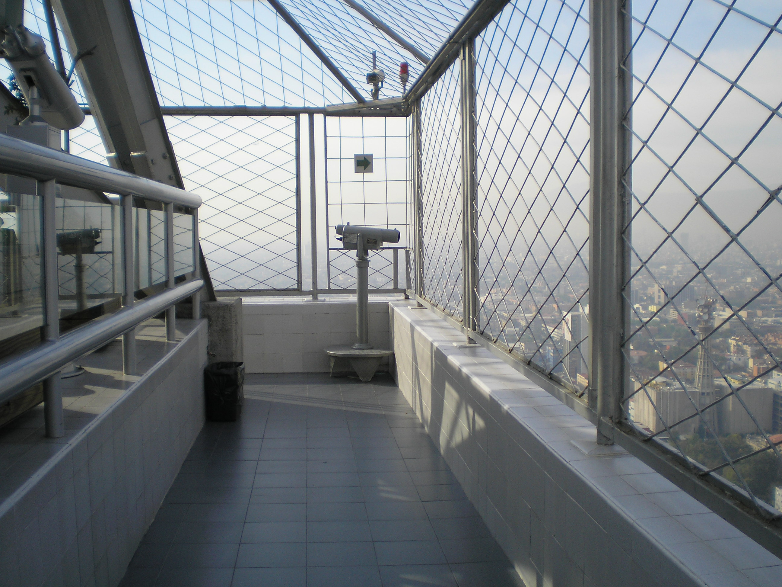 Photo of observation deck at Torre Latinoamericana.